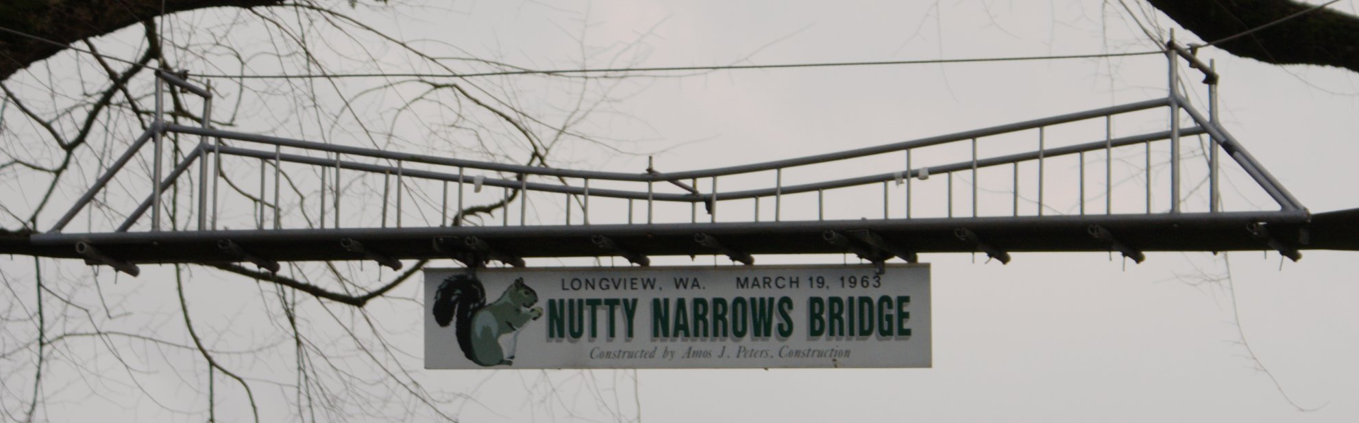 A closer view of the main span of the squirrel bridge. Its name is amusing, I guess. Nutty Narrows Bridge